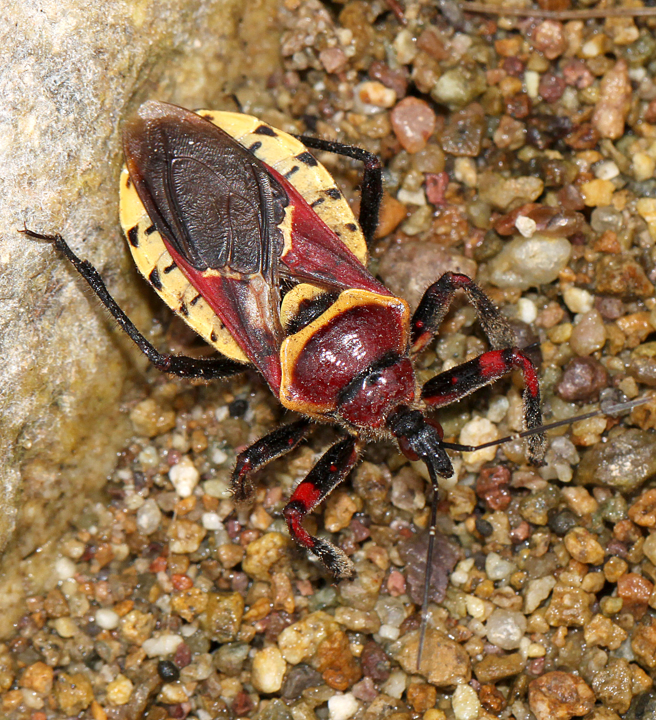 "Bugs"